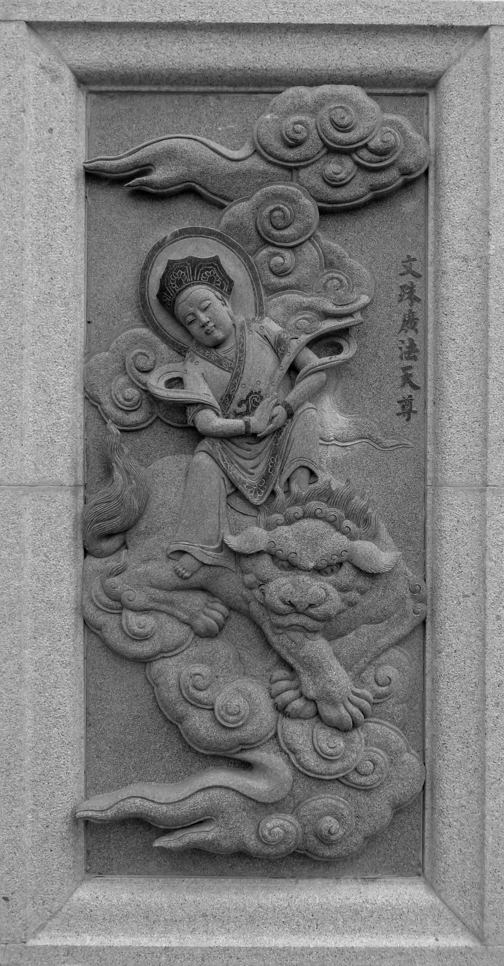 129 Wenshu Guang Fa Tianzun, Investiture of the Gods at Ping Sien Si, Pasir Panjang, Perak, Malaysia Photograph from the Ping Sien Si Temple in Perak, Malaysia taken by Anandajoti.